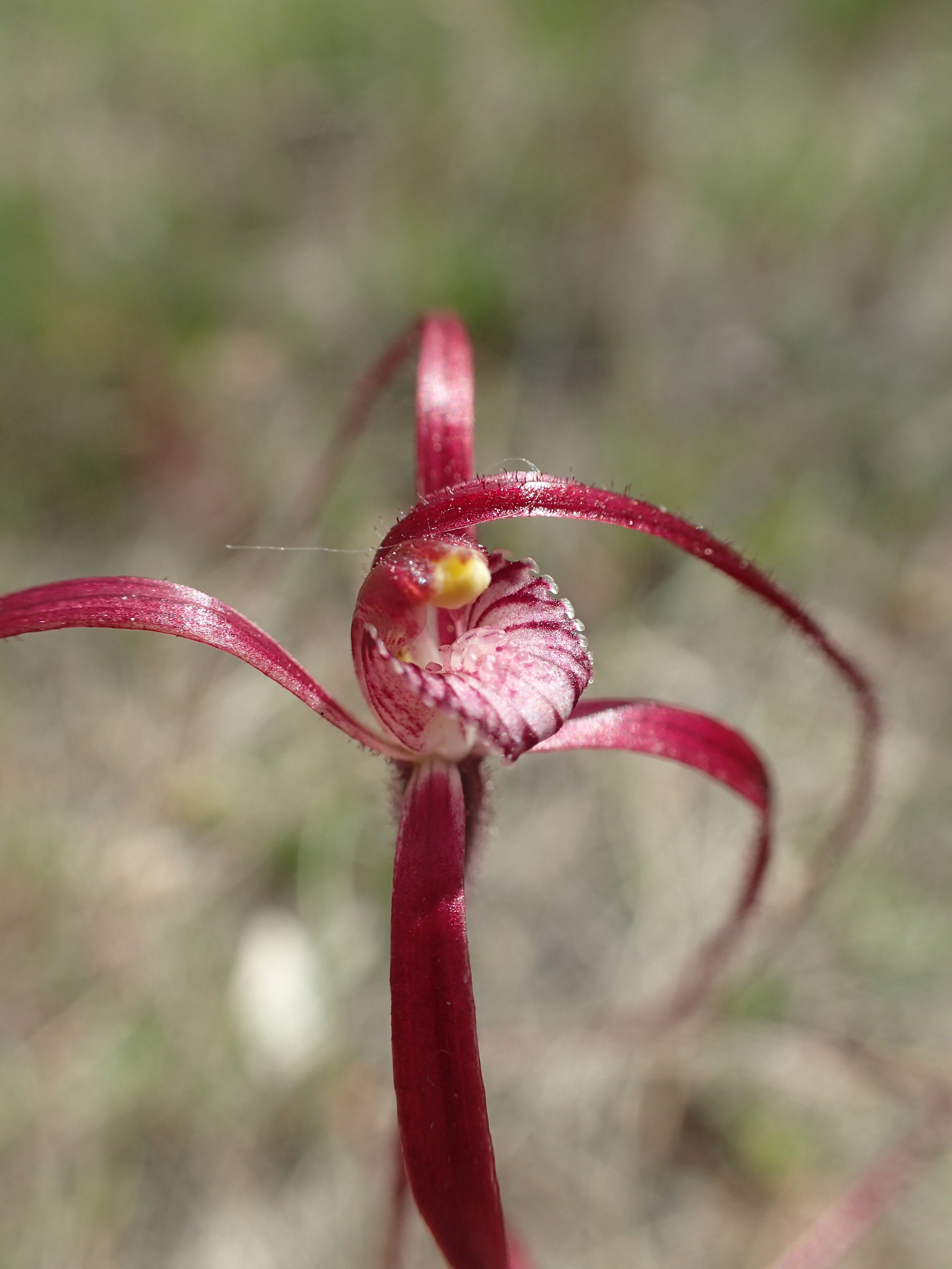 Close up of labellum of Caladenia pulchra